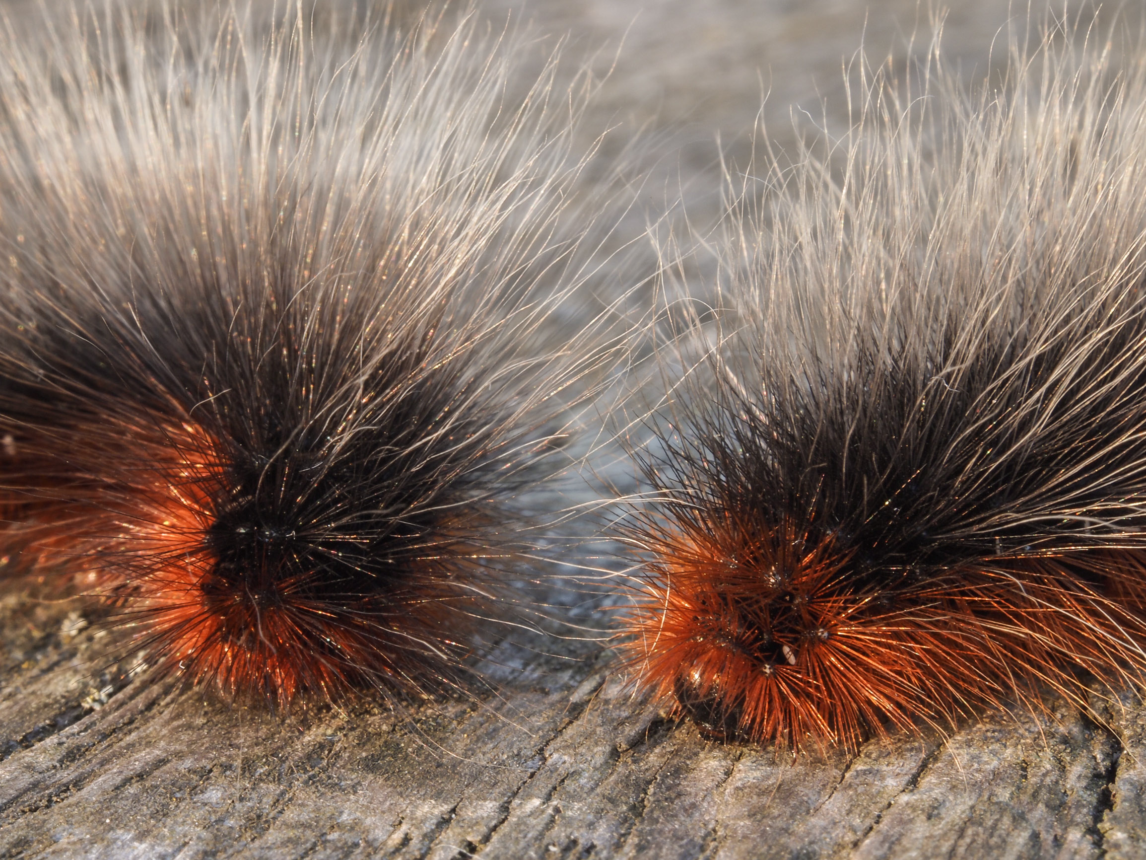 Two garden tiger moth caterpillars This is a photo or sound file made in De Alde Feanen National Park in the Netherlands, with the main subject of the file in the category: animals